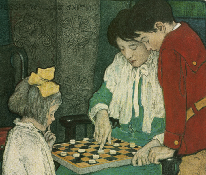 File name: 07_11_000394 Title: Checkers Creator/Contributor: Smith, Jessie Willcox, 1863-1935 (artist); L. Prang & Co. (publisher) Date issued: 1861-1897 (approximate) Copyright date: Physical description note: Proof print Genre: Chromolithographs; Proofs; Group portraits; Genre prints Location: Boston Public Library, Print Department Rights: No known restrictions Flickr data on 2011-08-07: Camera: Sinar AG Sinarback 54 FW, Sinar m License: CC BY 2.0 User: Boston Public Library BPL